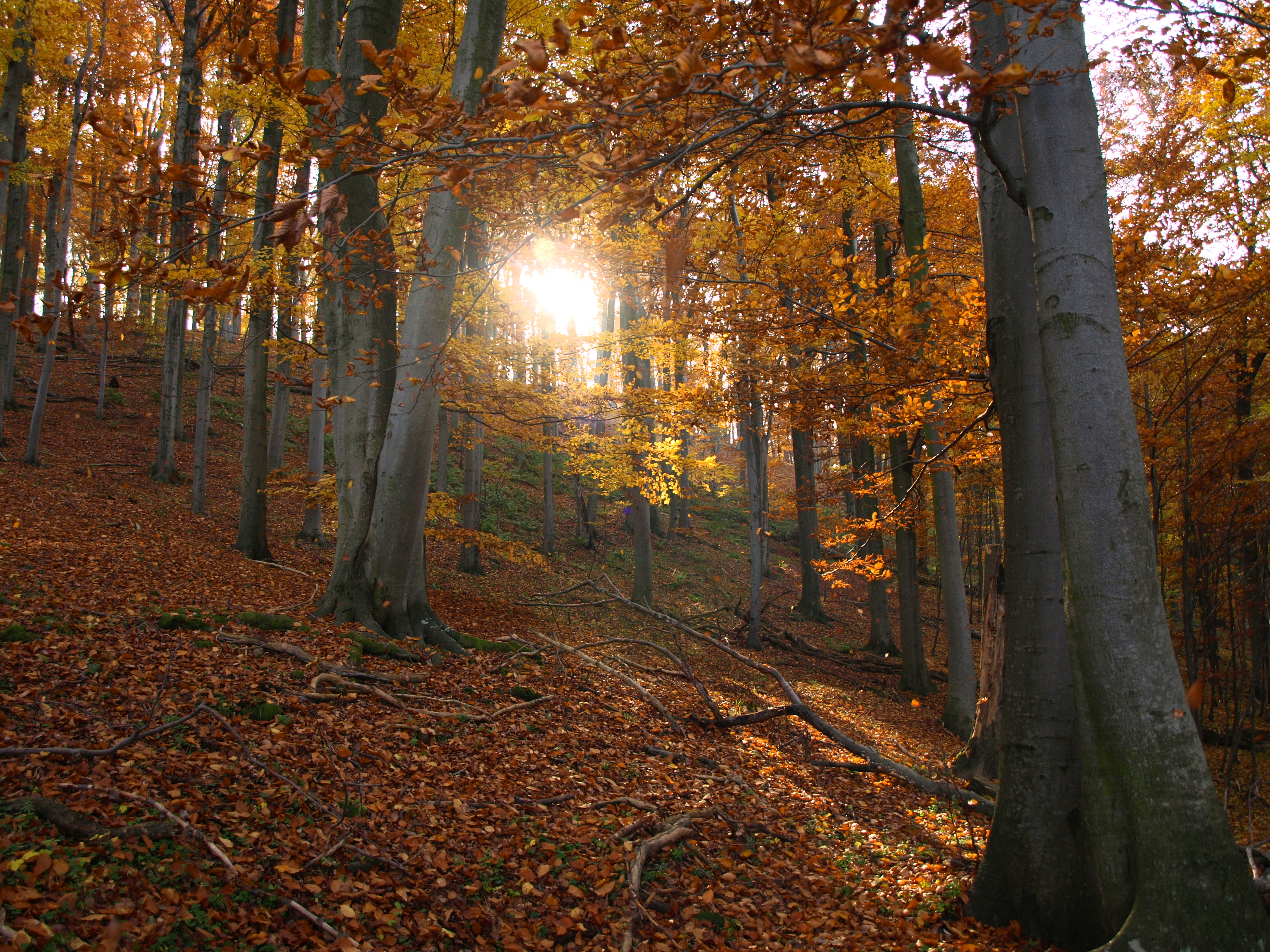 National nature reserve Ve Studeném in Benešov District, Czech Republic